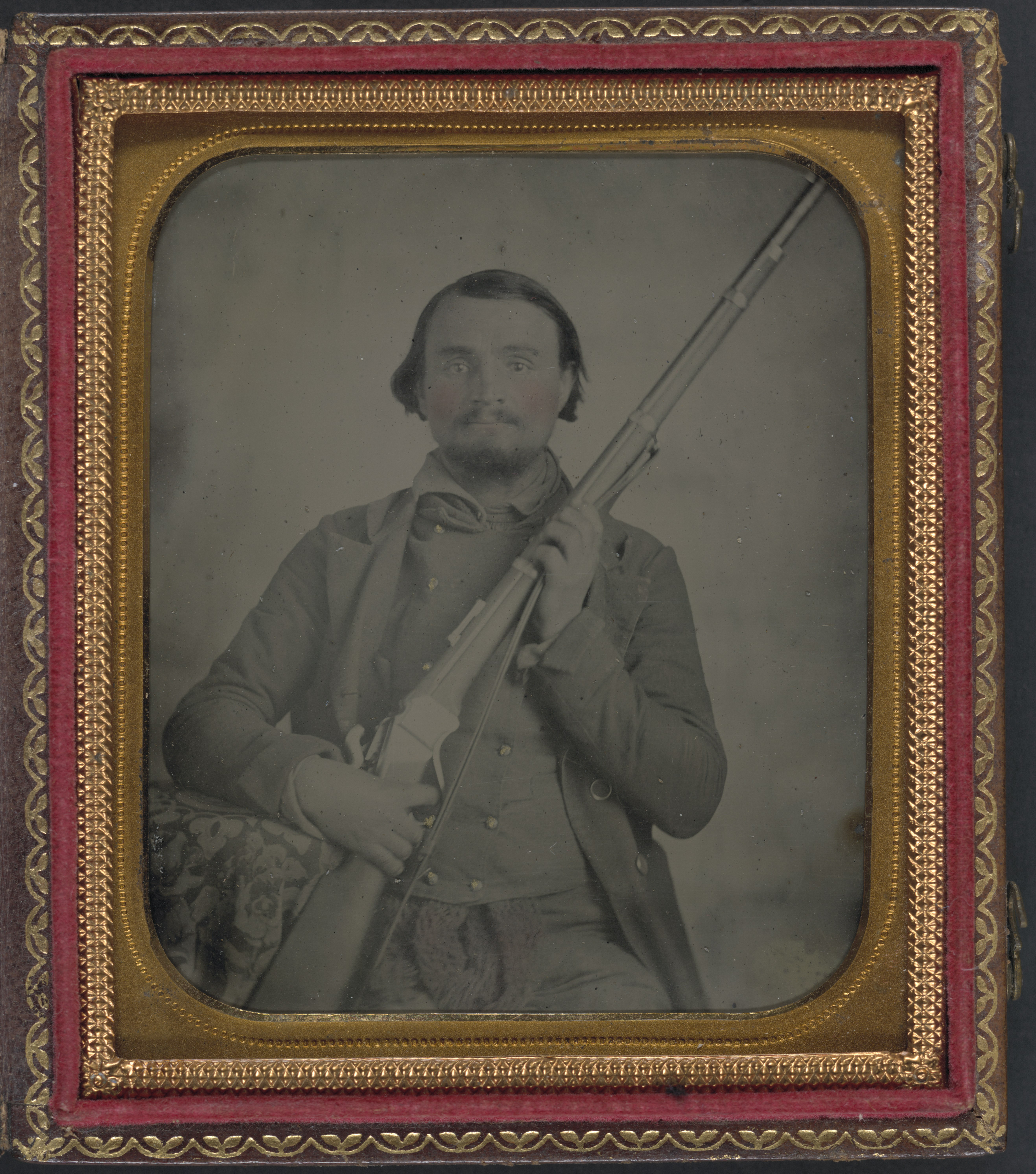 Title: Third Lieutenant John Alphonso Beall of Company D, 14th Texas Cavalry Regiment, with Berdan Sharps rifle Abstract/medium: 1 photograph : sixth-plate ambrotype, hand-colored ; 9.3 x 8.1 cm (case)